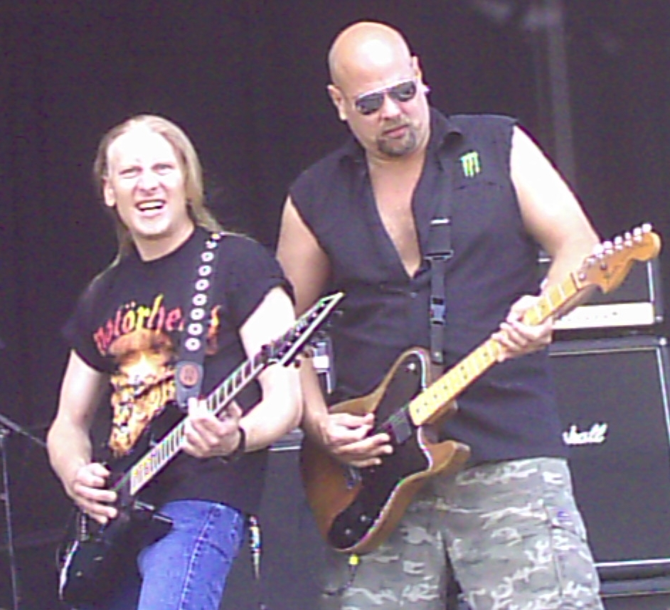 Kurdt Vanderhoof and Jay Reynolds performing at Gernika's Metalway Festival 2006 (Spain) with their band Metal Church. Contact O_Menda if you want the original image or any other to improve it.